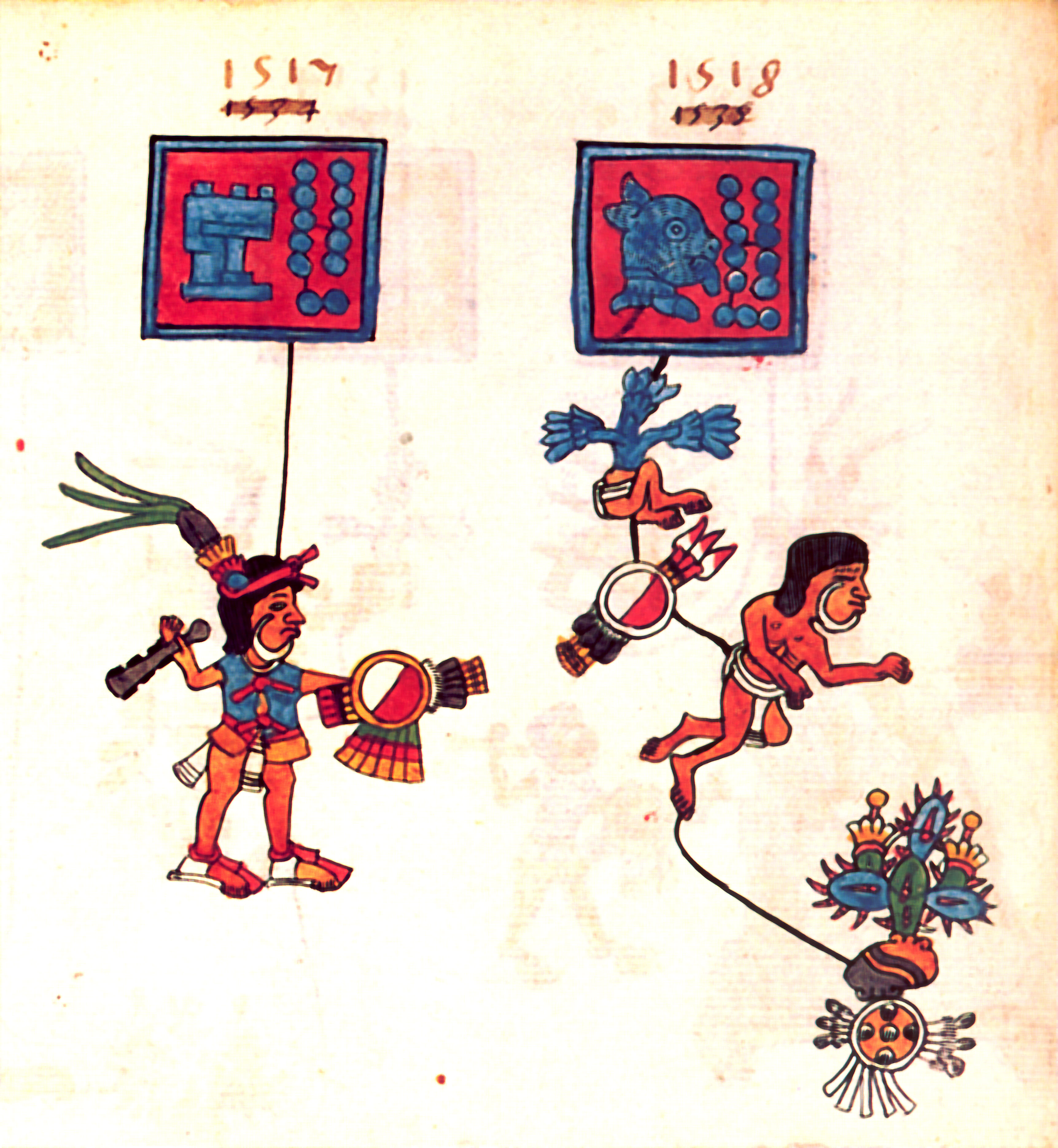 Huexotzinco's wars with Tenochtitlan in the Telleriano Codex.